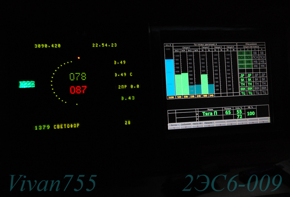 Display of 2ES6-009 locomotive, parallel traction motors connecting, 78 km/h